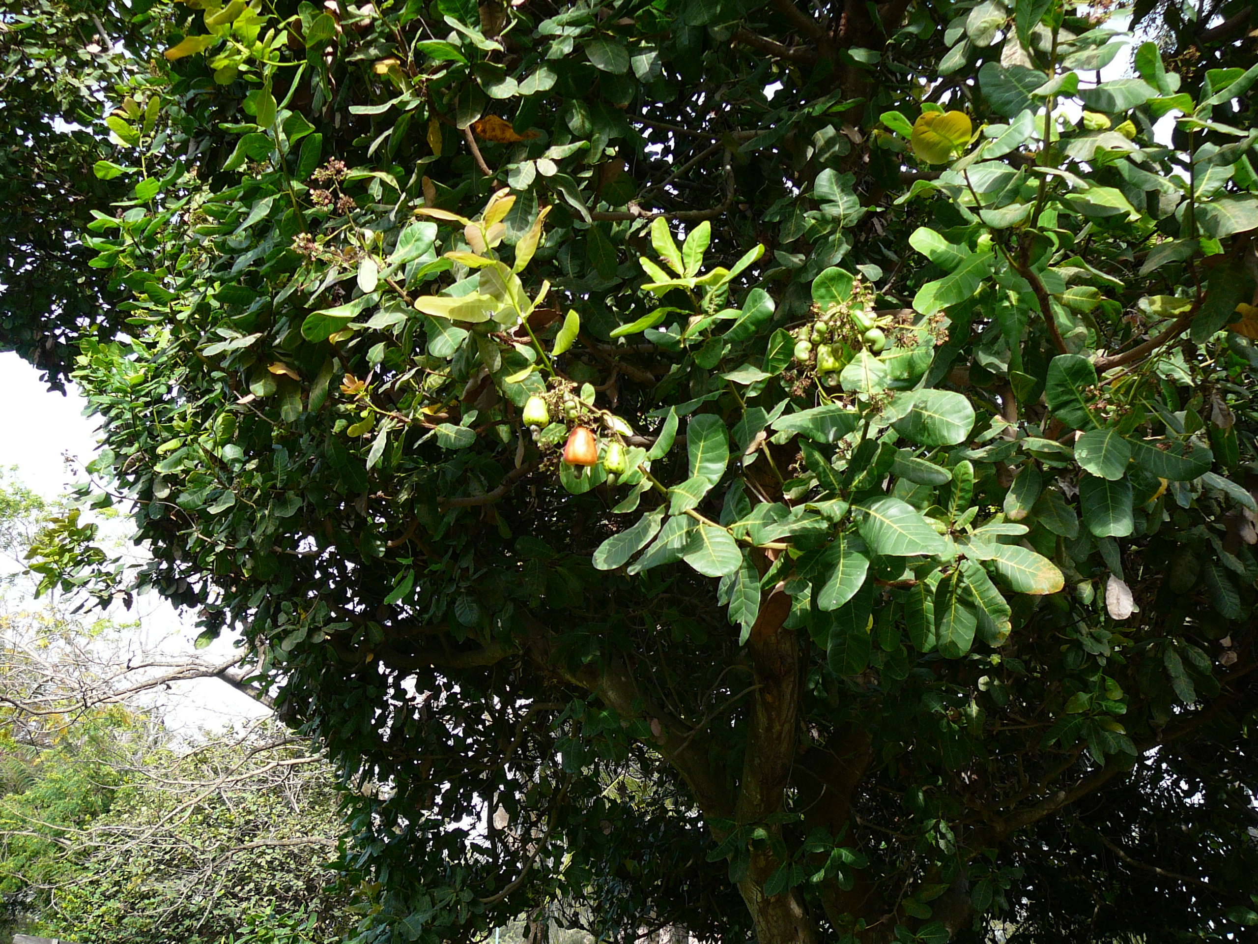 Cashew